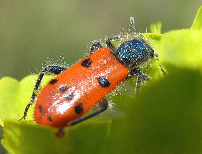 Trichodes octopunctatus Spain